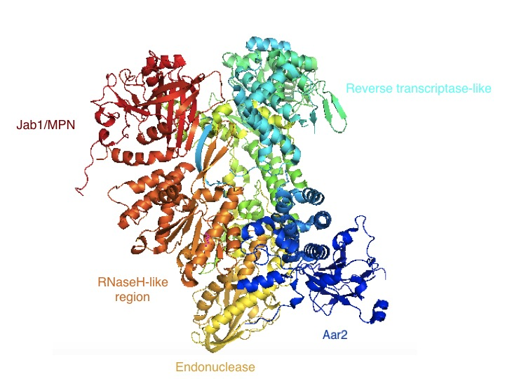 Labelled crystal structure of prp8